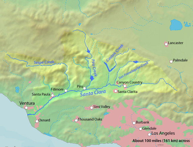 Map of the Santa Clara River watershed in southern California, USA